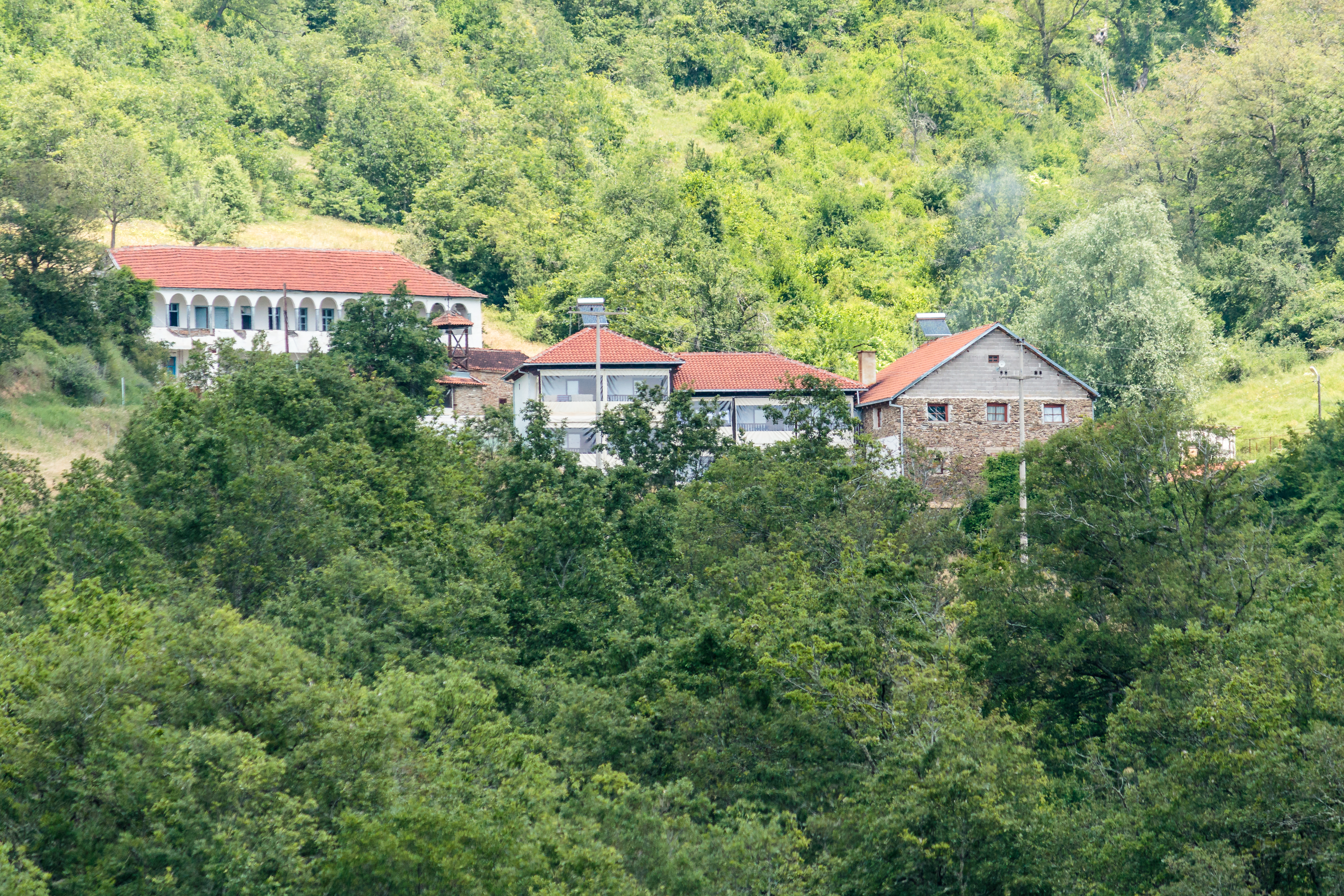 View of the Žurče Monastery